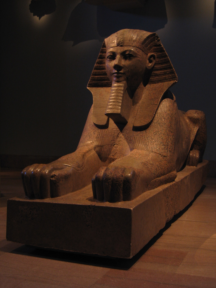 Sphinx of Hatshepshut, Eighteenth dynasty of Egypt, c. 1503-1482 B.C., found at Deir el-Bahri, Thebes. Red granite sculpture at the Metropolitan Museum of Art, New York City. This statue is one of six that were likely placed along the processional way into Hatshepsut's temple on the lower terrace. This statue's inscription reads "The King of Upper and Lower Egypt, Maatkara, beloved of Amun who resides in Djeser-Djeseru and given life forever. The statue is one of several in the Museum's collection that it invites the visually impaired (though not others) to touch.